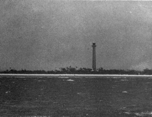 View of the Amédée lighthouse, Nouméa, New Caledonia, circa in January 1943.